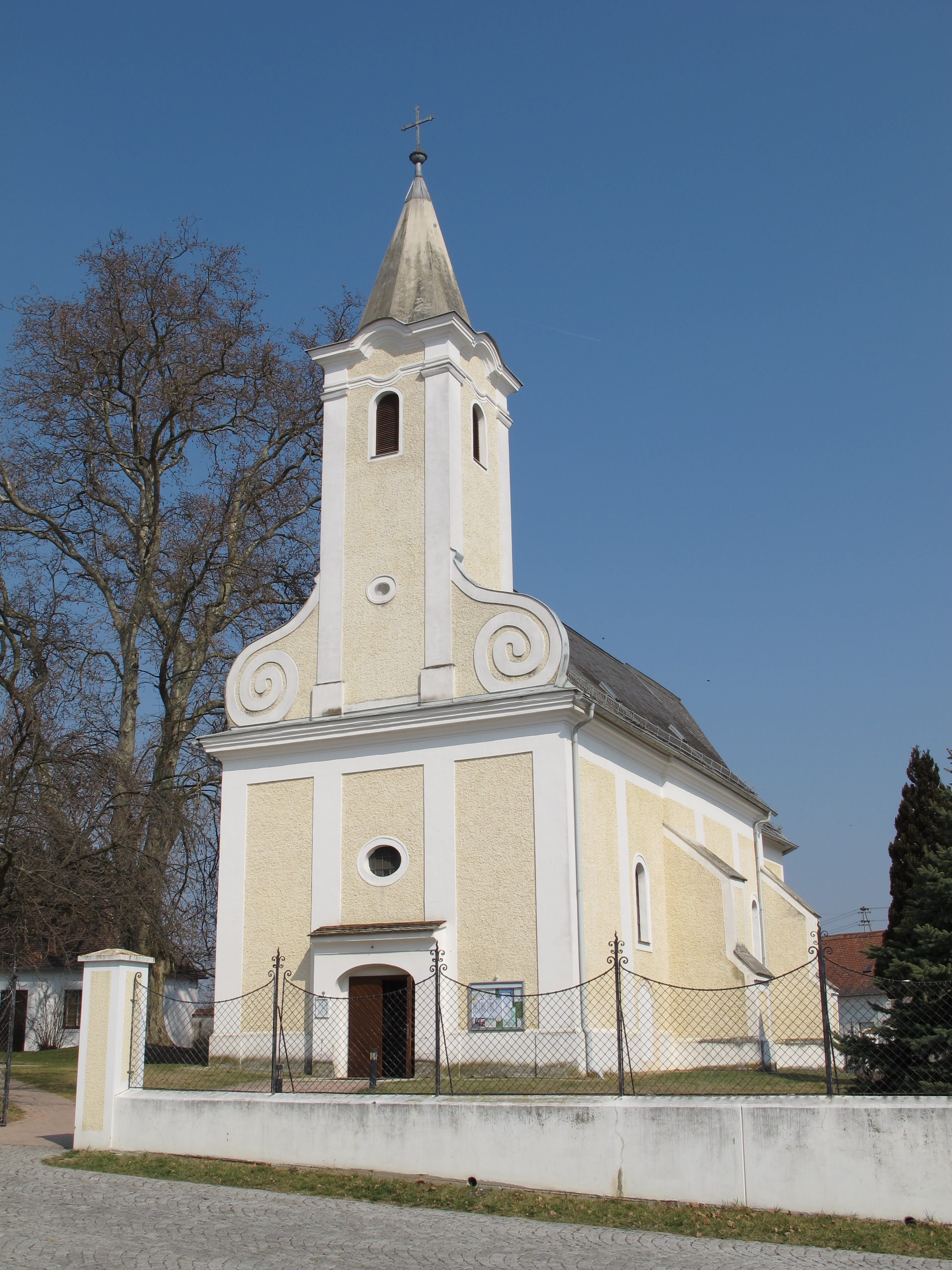 Pfarrkirche Bildein